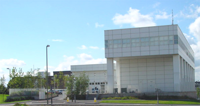 The White Swan Centre (library, social centre) in Killingworth.